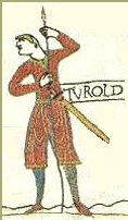 Turold depicted on the Bayeaux Tapestry